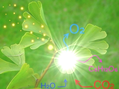 Enters CO2 in the part of bass of the leaf + H2O that comes from the roots + Solar Light (luminous balls). With the action of the Chlorophyll (shine in the leaf) Leave O2 for the environment and C6H12O6 for the plant.